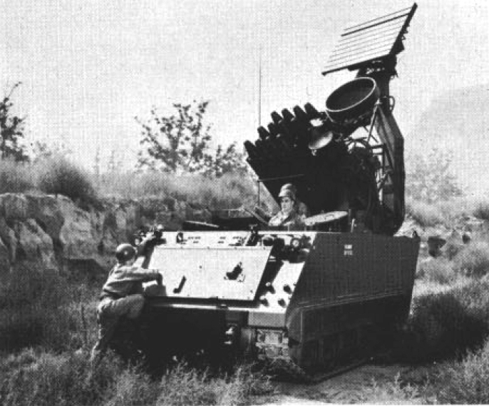 A U.S. Army MIM-46 Mauler self-propelled anti-aircraft missile system, circa 1963. An ambitious design for its era, the Mauler ran into intractable problems during development, and was eventually canceled in November 1965.